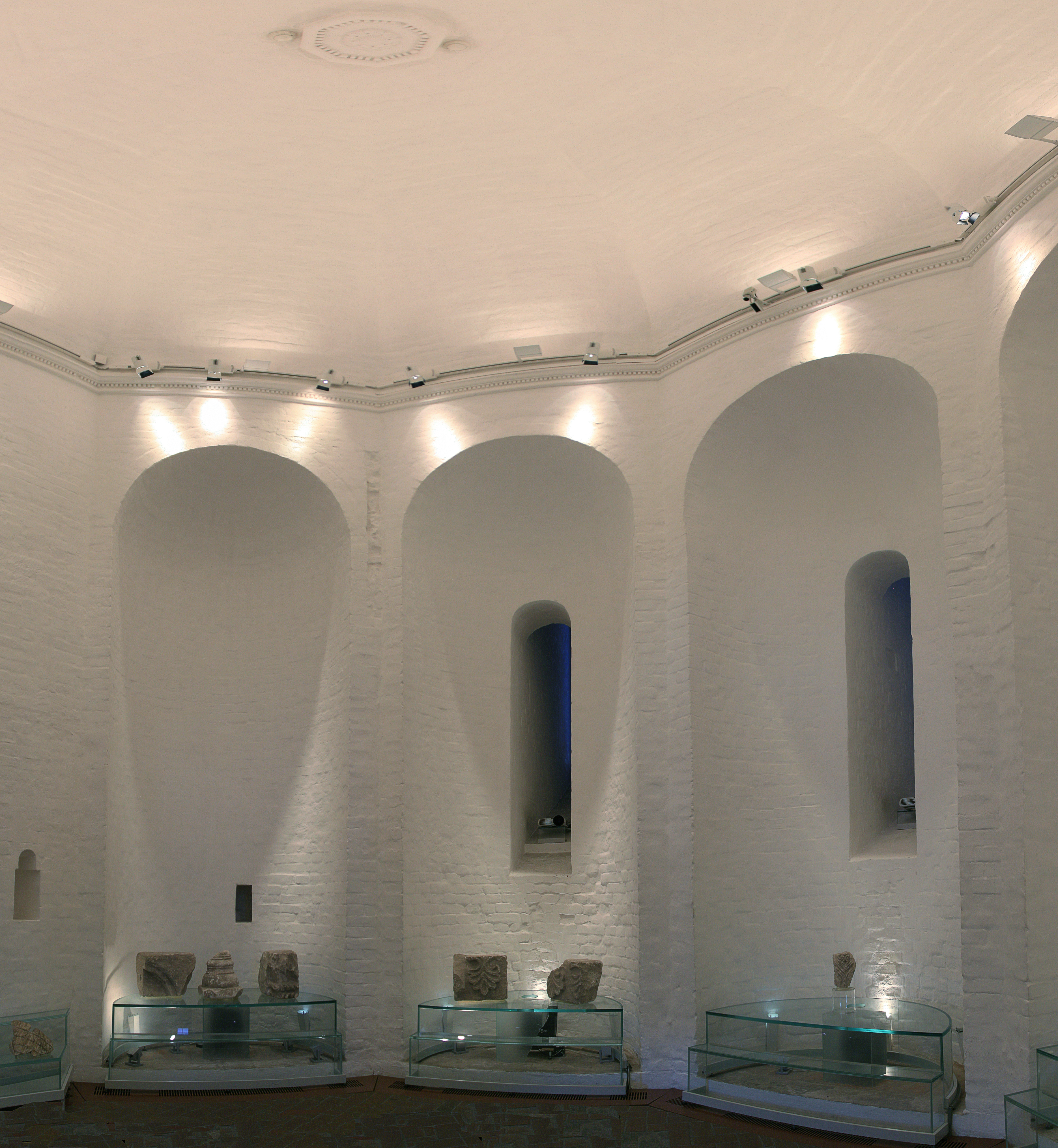 Interior of Ivan the Great Bell Tower